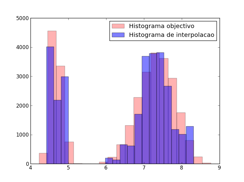 Histogram of an objective image by oposition to an interpolation with nearest neighbour.